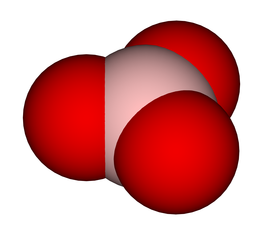 Borate anion